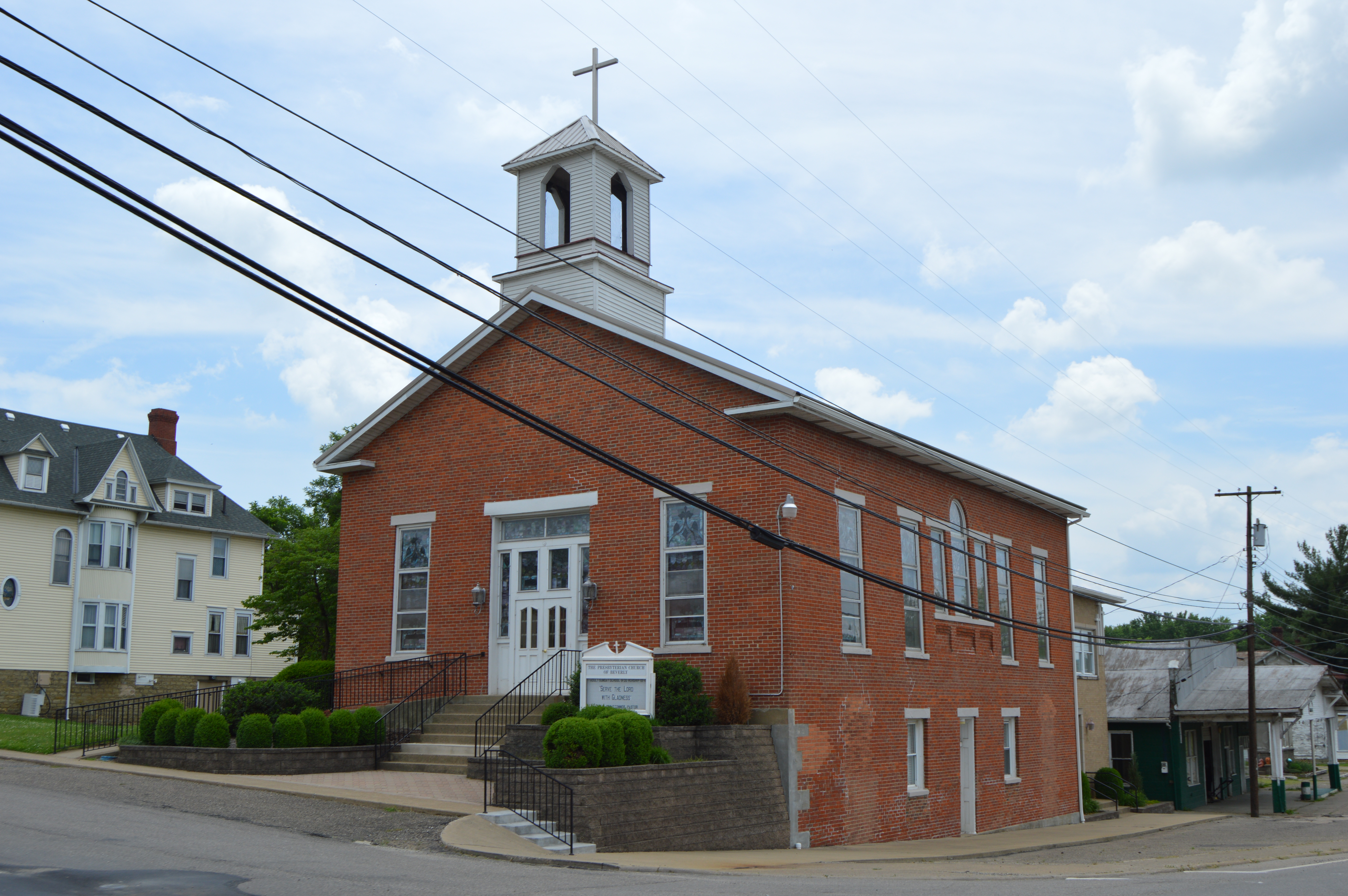 Front and western side of the Beverly Presbyterian Church, located at the junction of Ferry (State Route 339) and Fourth Streets in Beverly, Ohio, United States.